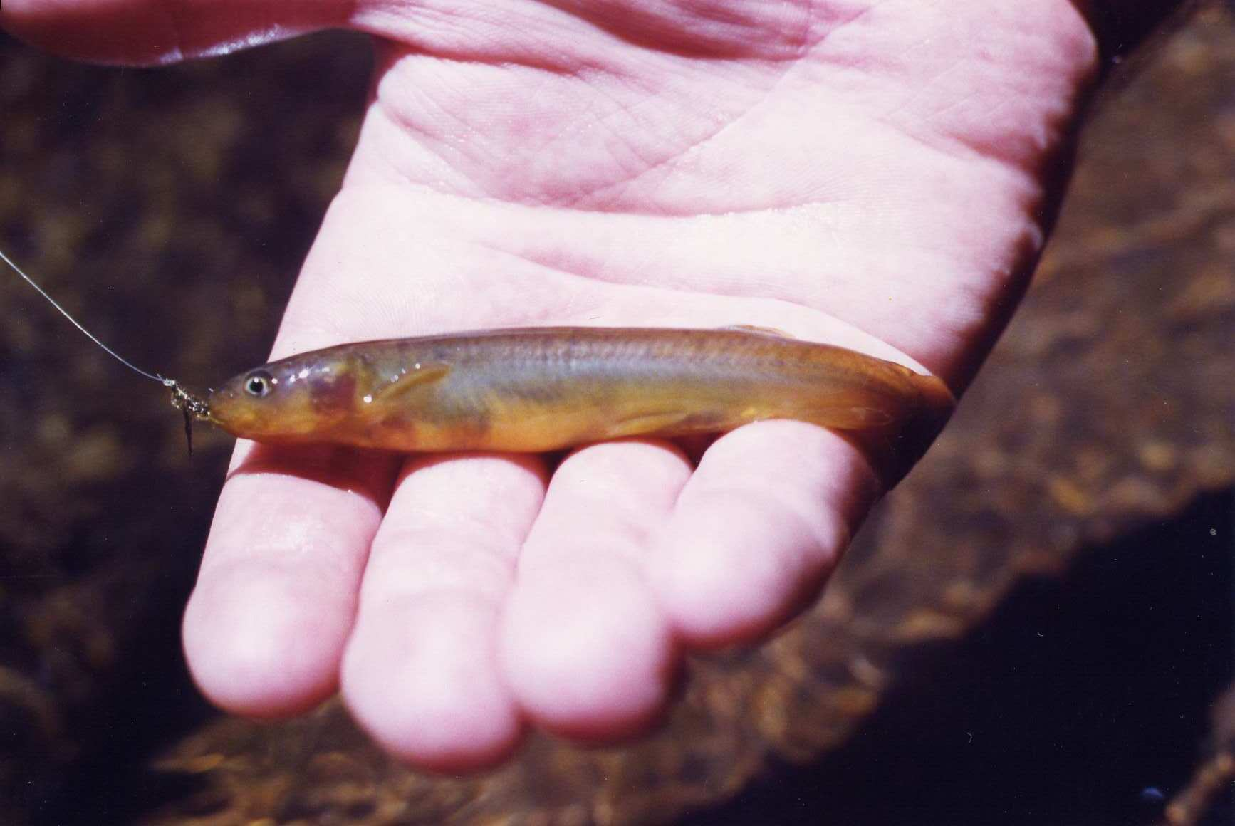 A member of the Mountain Galaxias species complex that was caught on a tiny barbless wet fly in an upland stream that was free of exotic Trout at the time of capture. This upland stream has since been illegally stocked with exotic Rainbow Trout, resulting in the extinction of this Mountain Galaxias population; a pattern that been repeated in upland streams across south-eastern Australia. February/March 1999. Copyright held by the uploader and waived under GFDL.